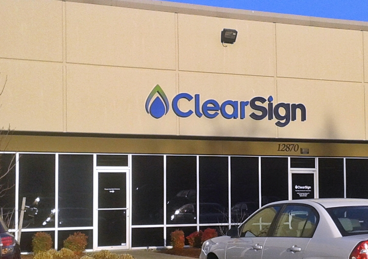 the offices of ClearSign Combustion in Tukwila, United States